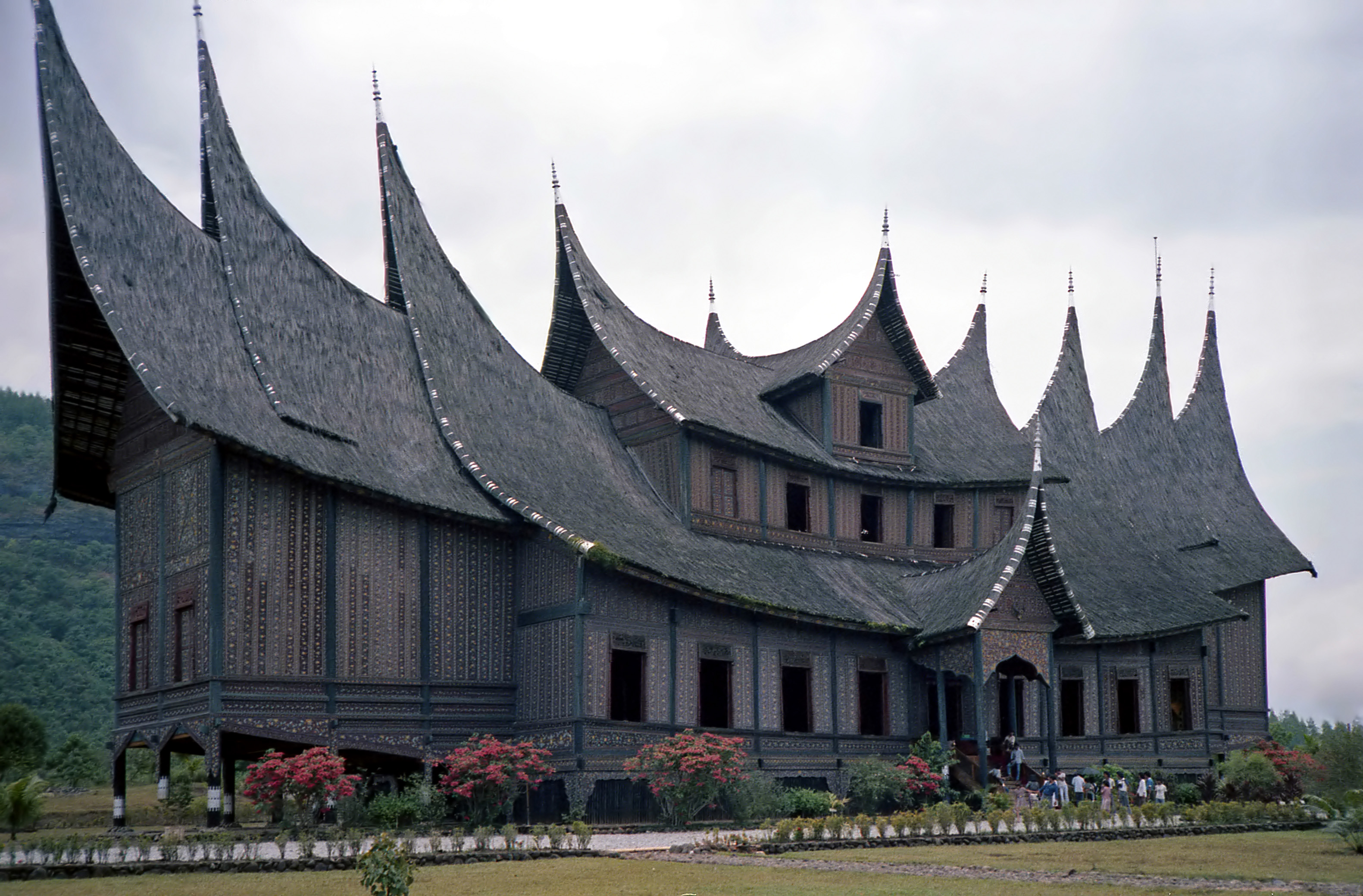 Pagaruyung Palace near Batusangkar, Sumatra, Indonesia. Destroyed by fire in February 2007